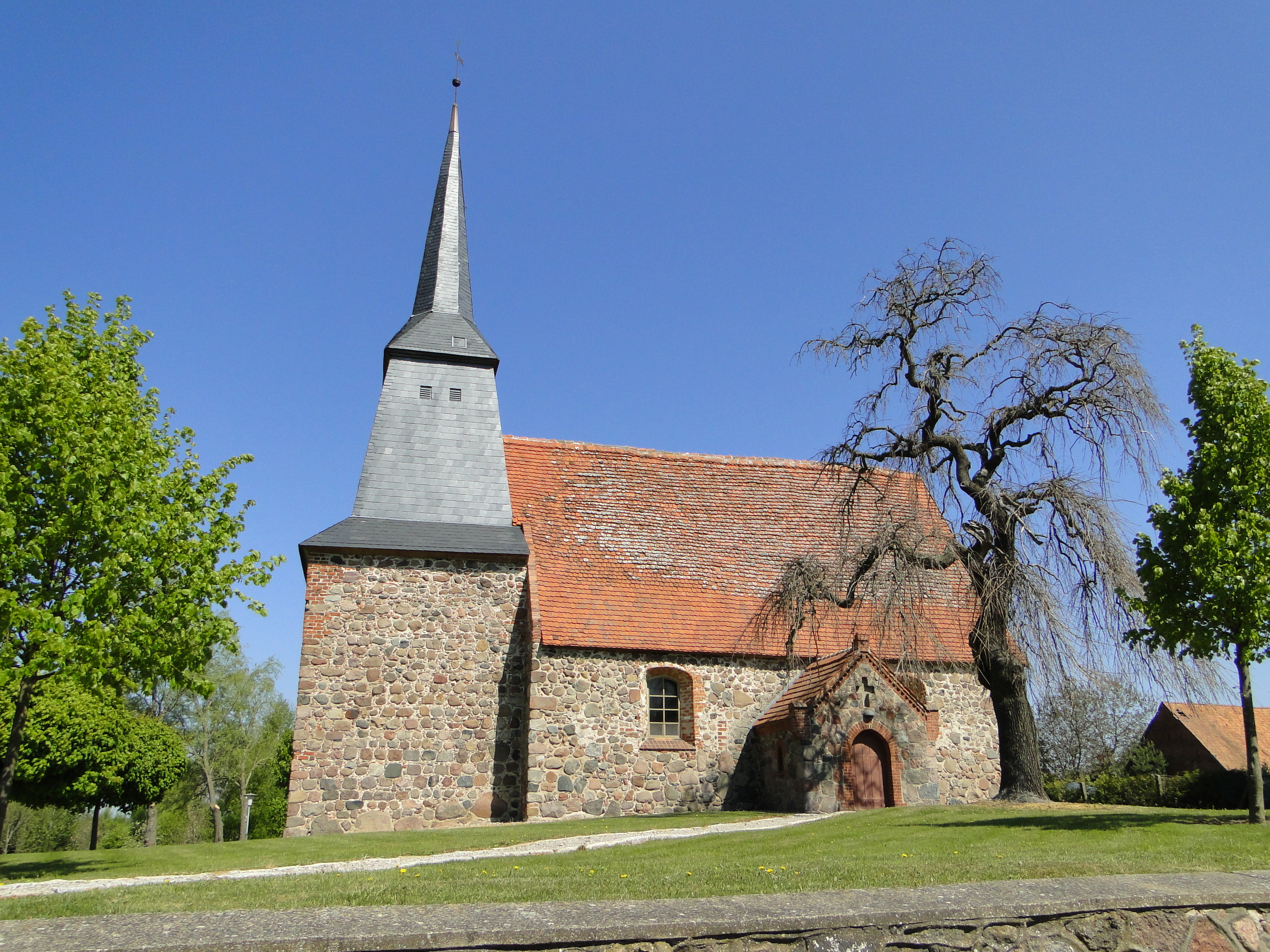 Church in Pasenow, district Mecklenburg-Strelitz, Mecklenburg-Vorpommern, Germany